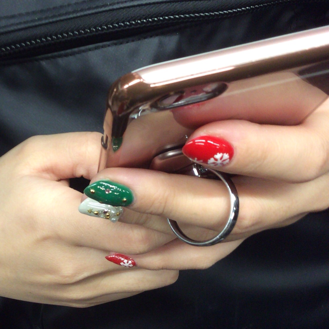 Christmas themed nail polish